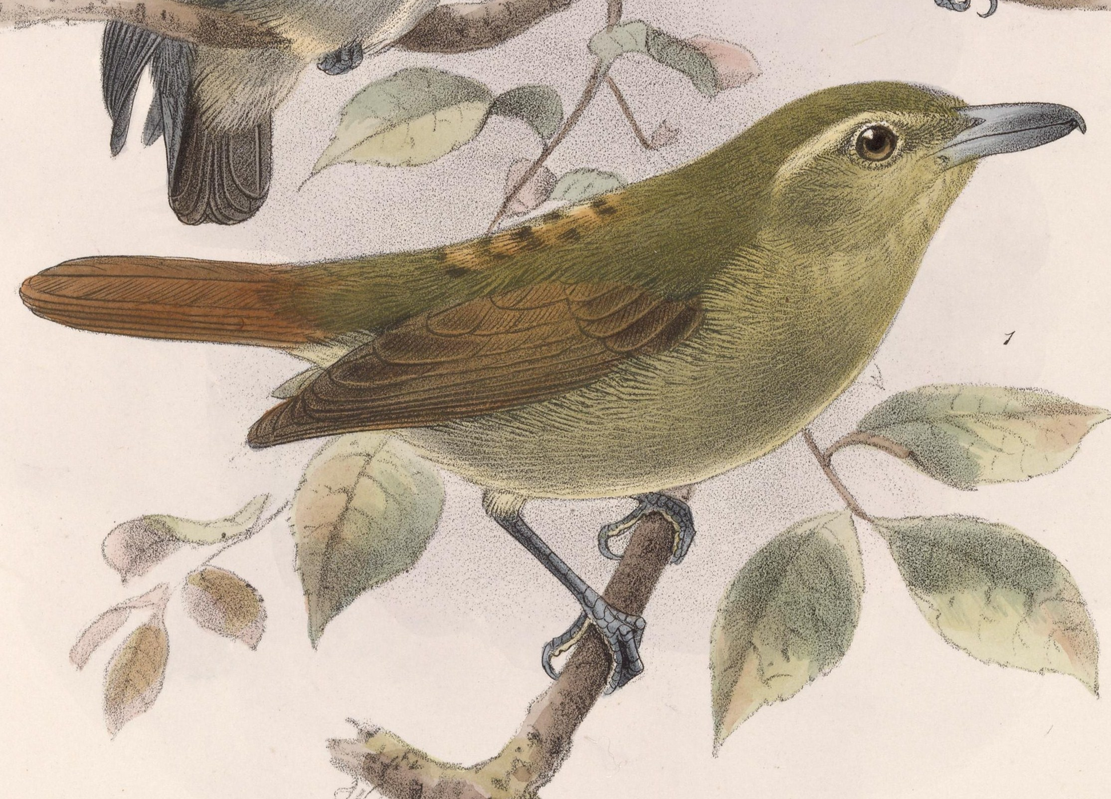 « Thamnistes anabatinus » = Thamnistes anabatinus (Russet Antshrike)